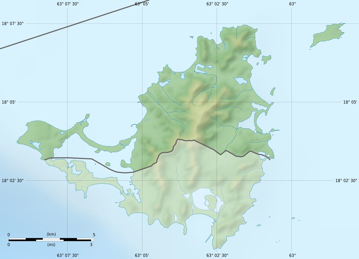 Blank physical map of the overseas collectivity of Saint Martin, France, for geo-location purpose.